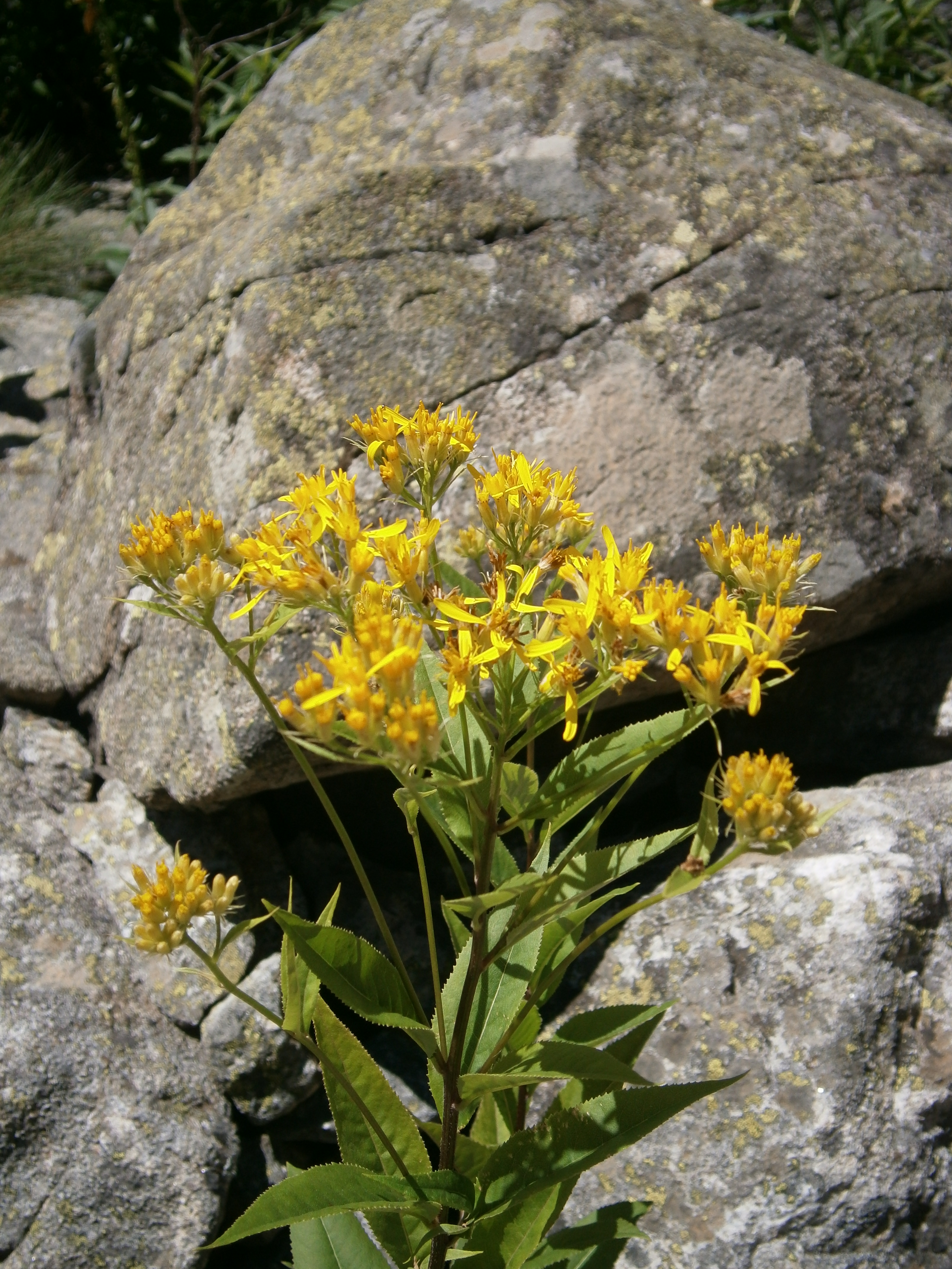 Senecio hercynicus